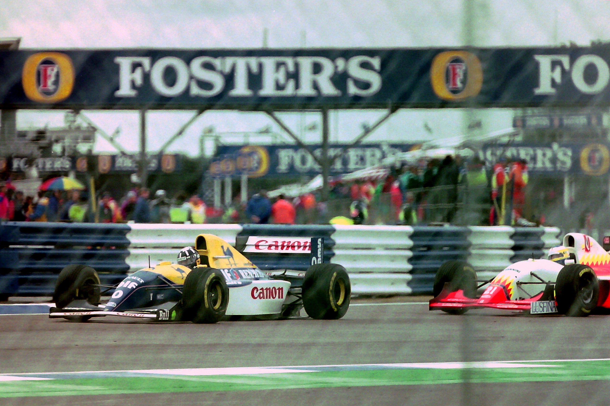 Damon Hill - Williams FW15C leads Michele Alboreto - Lola T93-30 into Copse during practice for the 1993 British Grand Prix